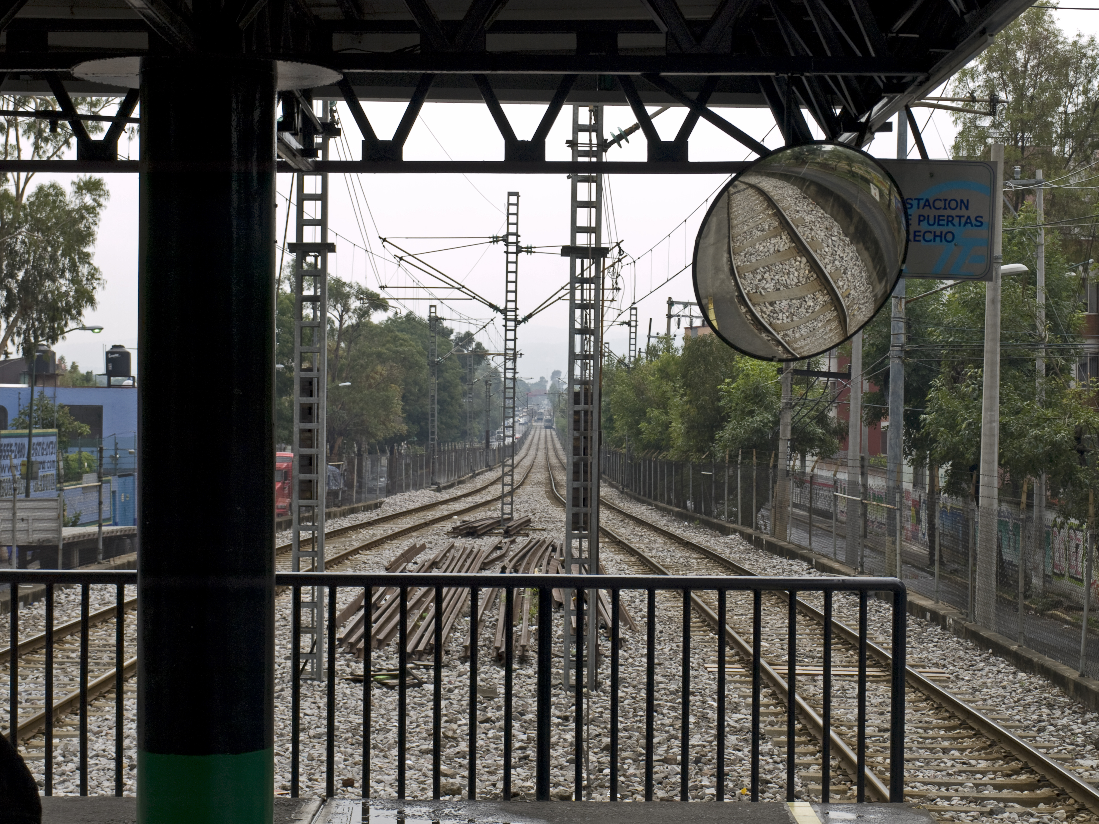 Xochimilco Light Rail east of La Noria Station